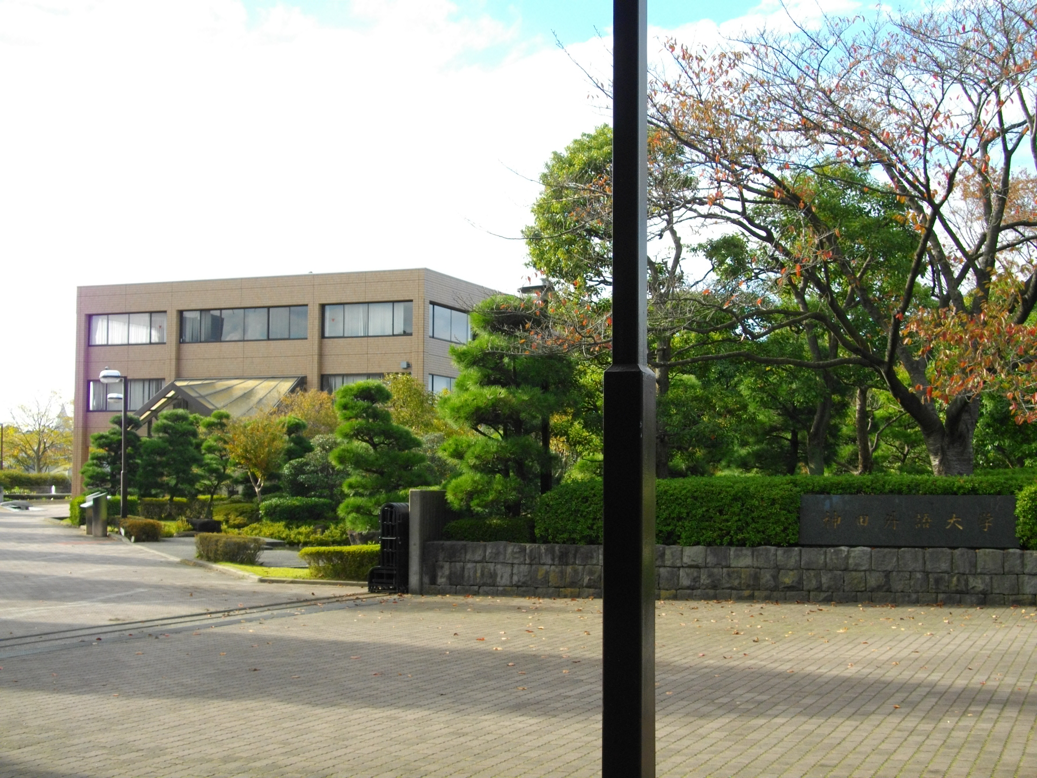 Kanda University of International Studies